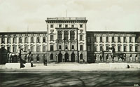 University of Technology Munich building old